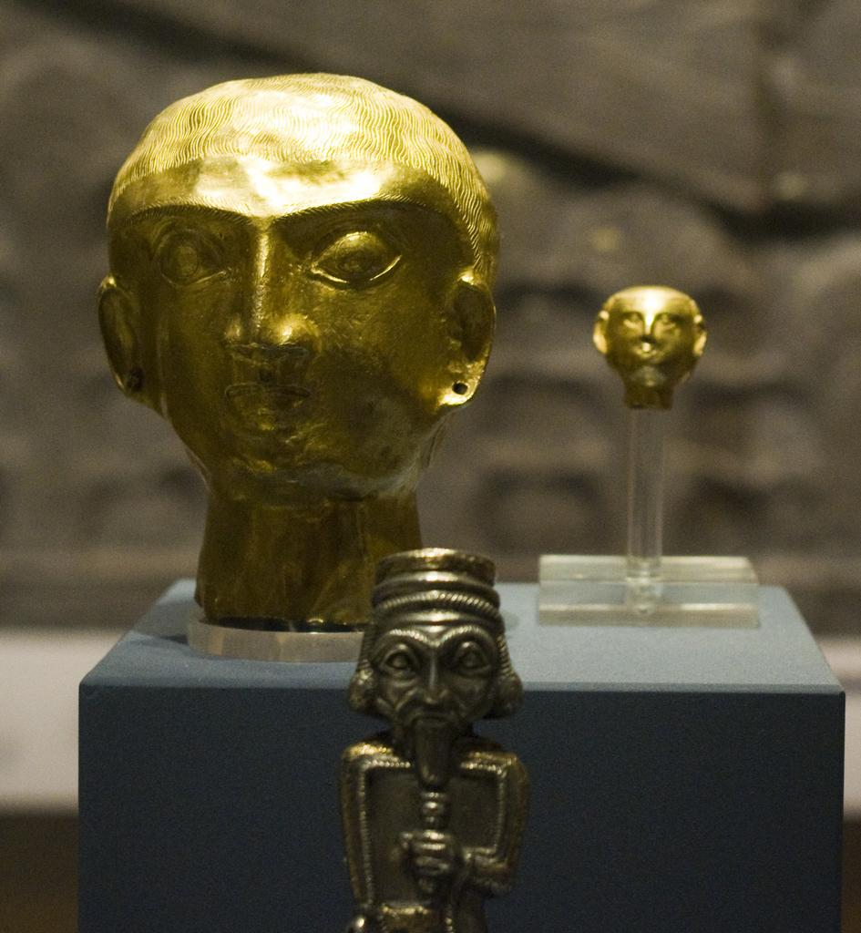 A collection of priceless gold and silver objects, perhaps depicting Achaemenid deities, from the Oxus Treasure.